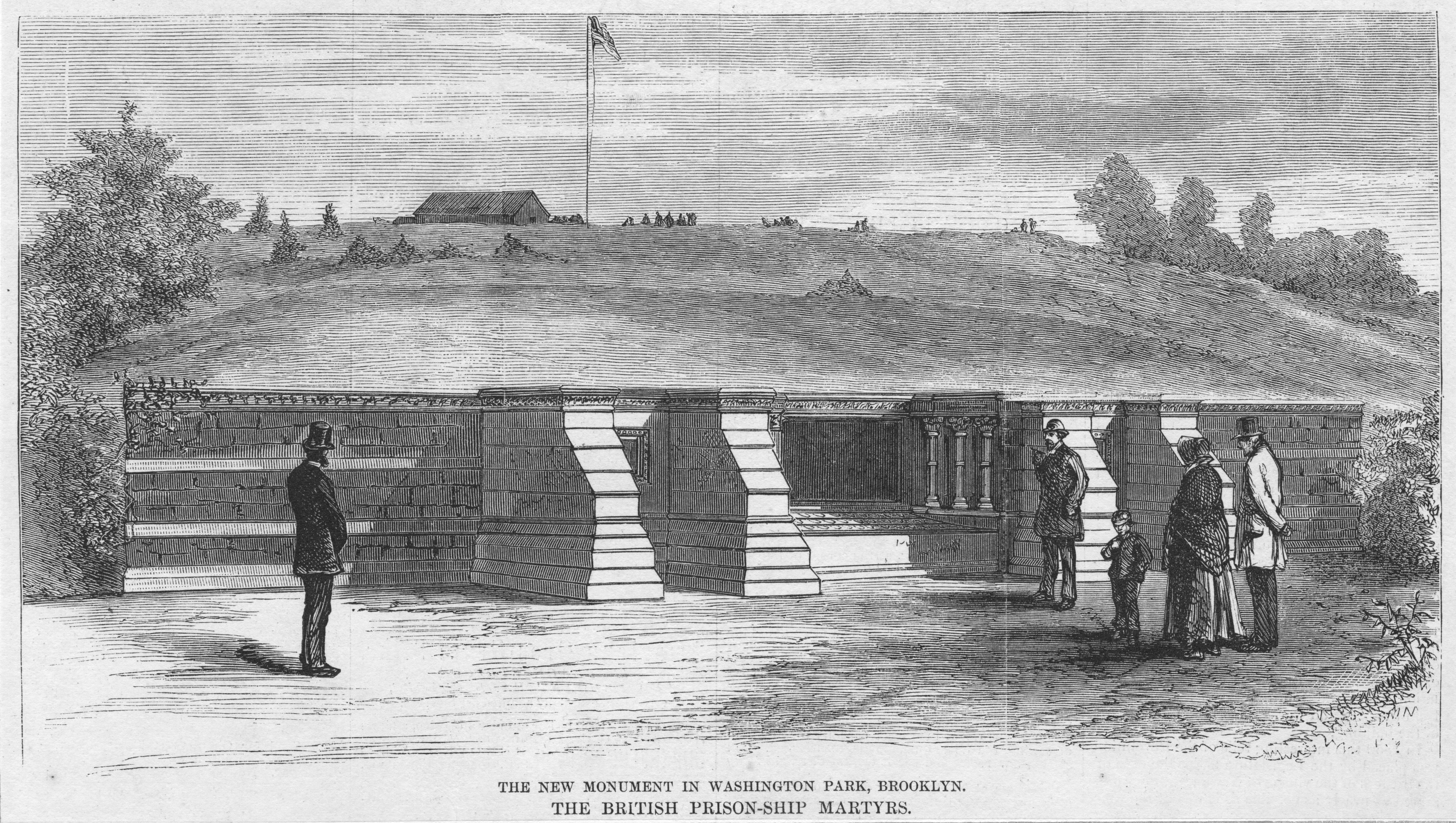 ImageID=1253398. The British hospital ships--the 'Jersey' in the foreground..., The old monument, and The new monument in Washington Park, Brooklyn. Detail of an image from the New York Public Library Digital Collection. The Miriam and Ira D. Wallach Division of Art, Prints and Photographs: Print Collection.